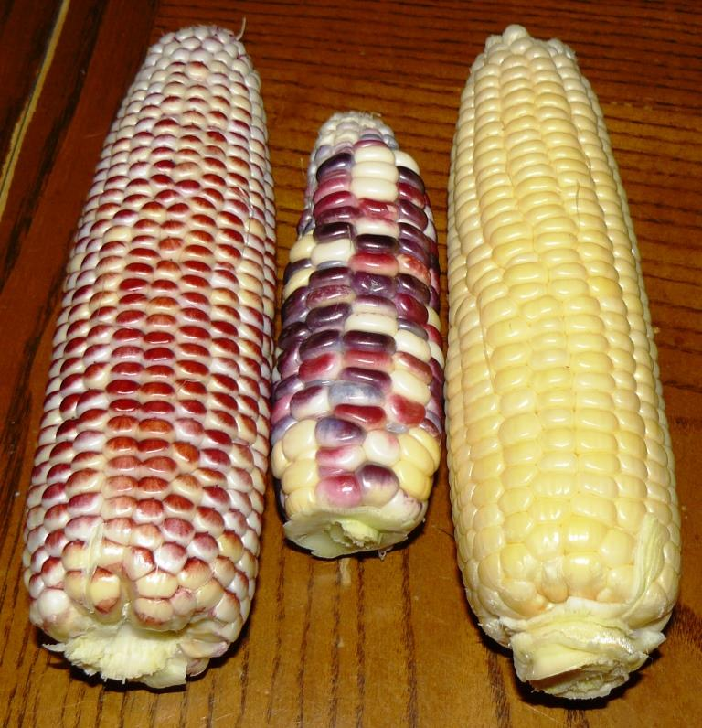 The three cultivars pictured here from left to right are 'Ruby Queen', 'Painted Hill' and 'Bodacious'.